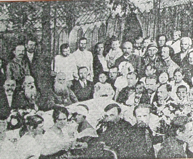 Metropolitan Vasyl (Lypkivskiy) at a feast together with his parish in Kyiv